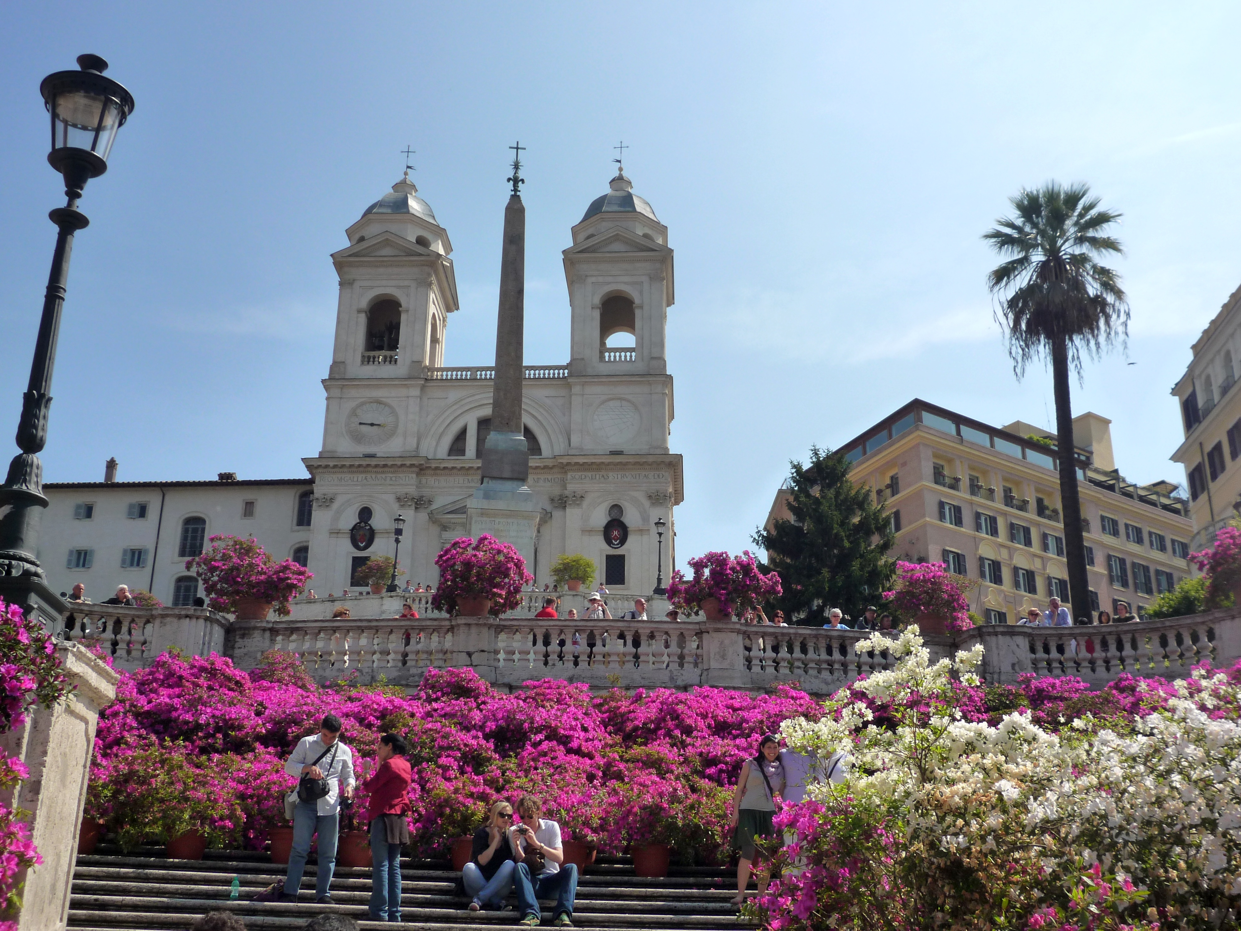 The Spanish Steps and "Trinita dei Monti" church